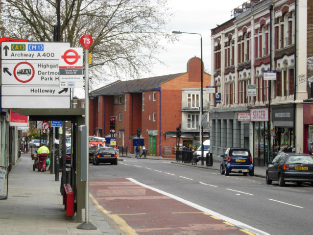 Fortess Road, Tufnell Park Looking along Fortess Road towards its junction with Junction Road, Brecknock Road, Dartmouth Park Hill and Tufnell Park Road. Note the street cleaner going about his business.